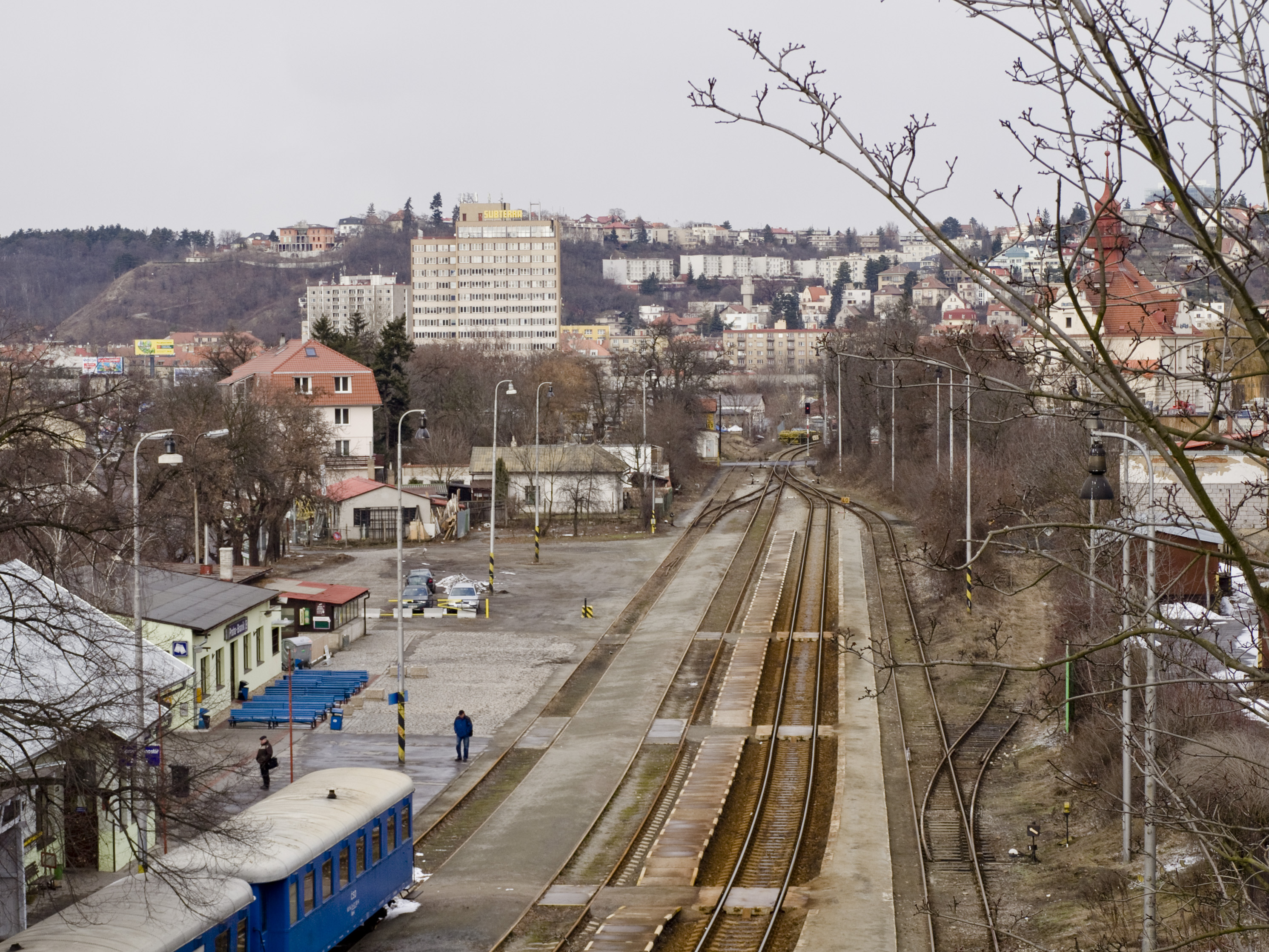 Train station Praha-Braník from railway bridge Braník – Malá Chuchle, Prague